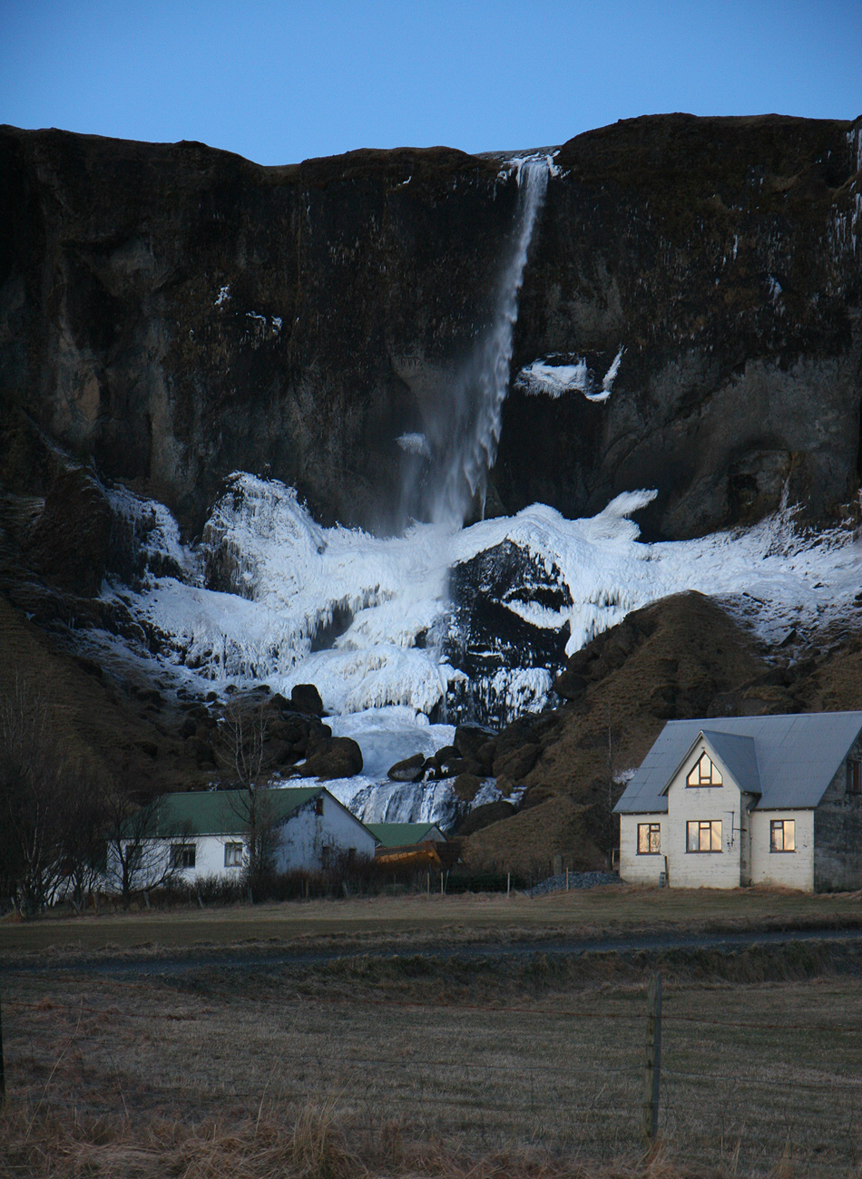 Farmstead of Foss á Síðu, November 24 17:30 Iceland, November 2007 Photo by me user:debivort (or my friend who has given me permission to freely license our photos from Iceland)